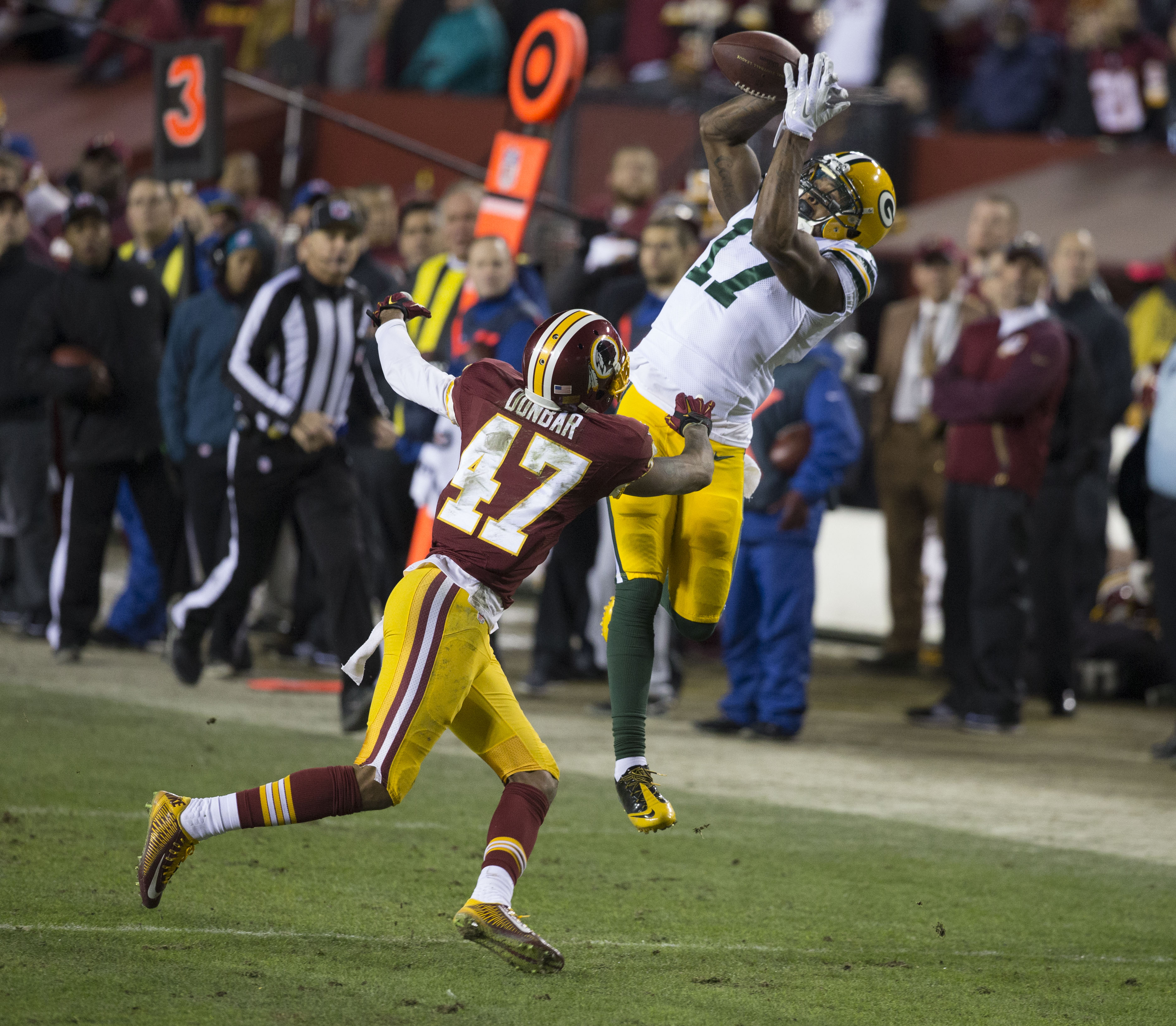 Packers at Redskins Wildcard Game 01/10/16